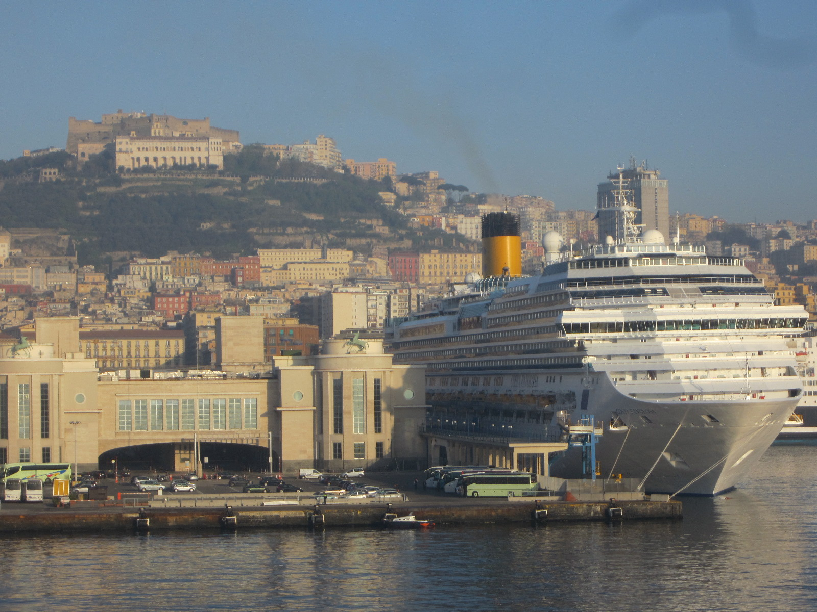 Naples;Cruise ship harbour